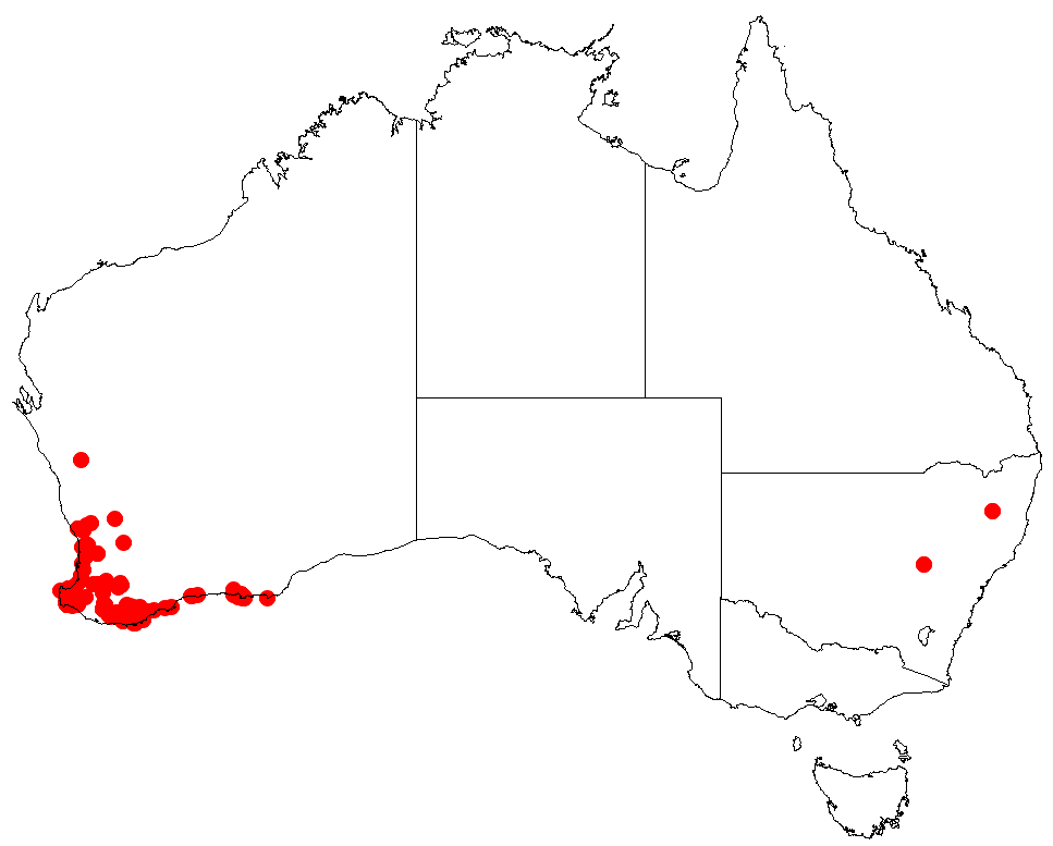 Hakea sulcata Occurrence data downloaded from Australasian Virtual Herbarium on 22 November 2018 using